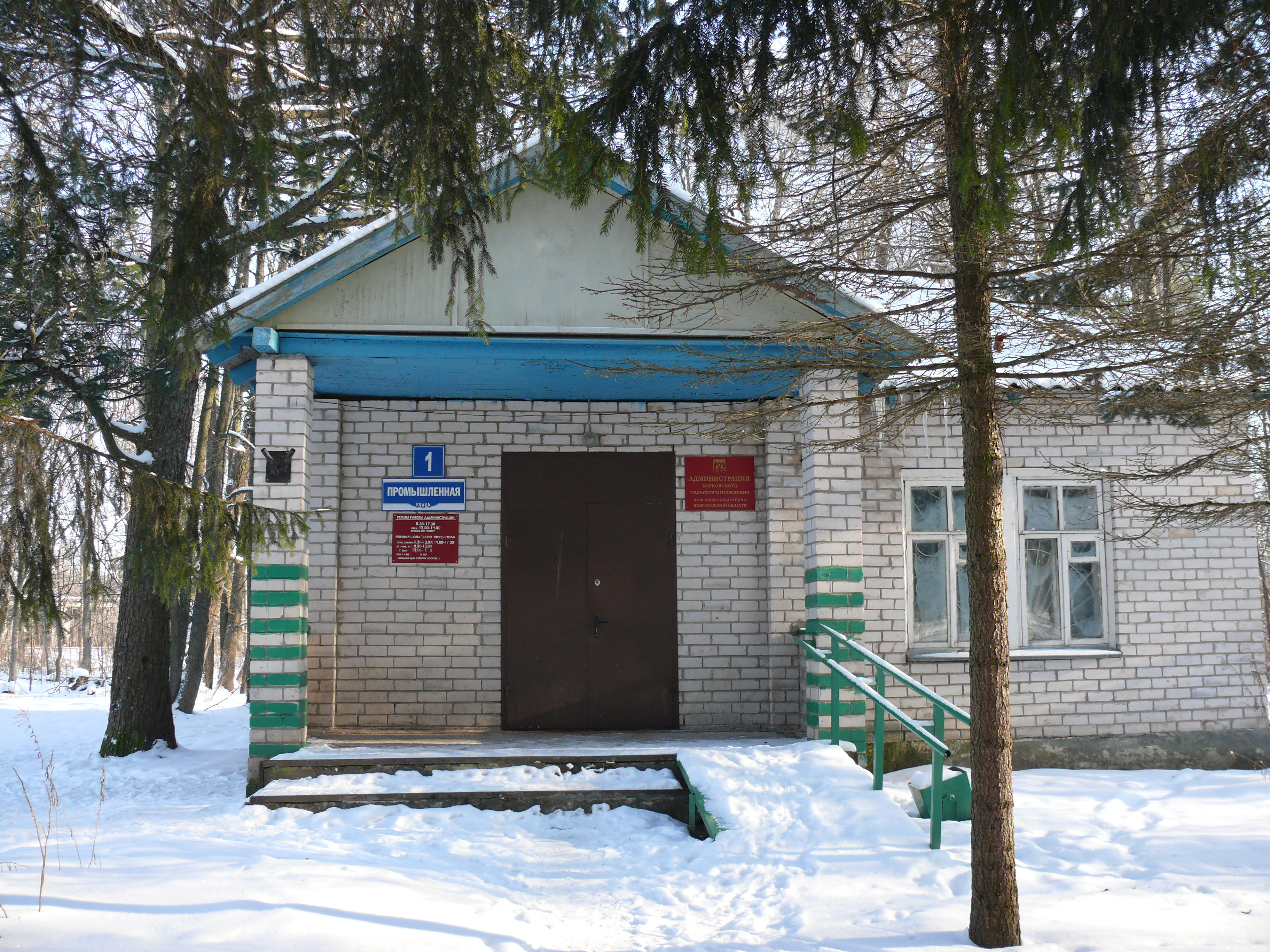 Borki village, Novgorodsky District, Novgorod Oblast, Russia